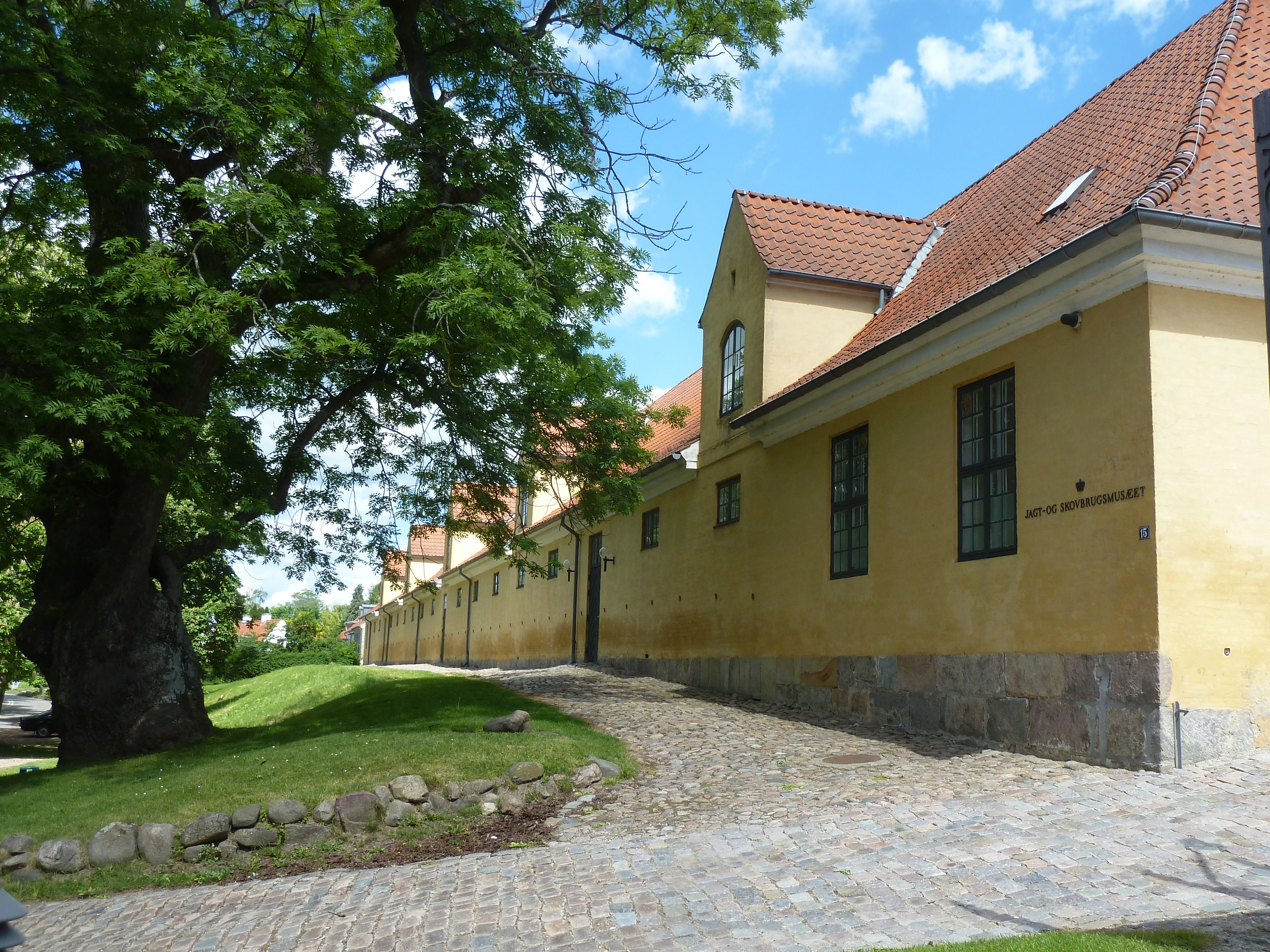 Former farm Buildings under Hirschholm Palace, now part of the Danish Museum of Farming and Hunting in Hørsholm, Denmark